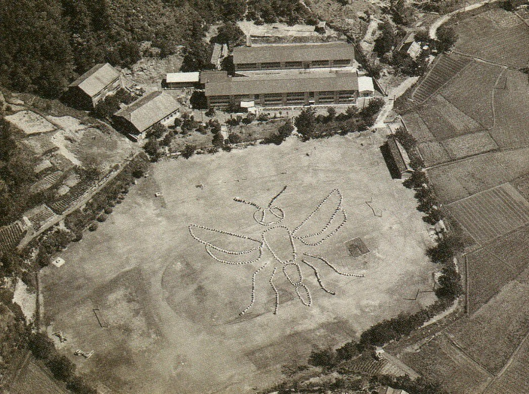 Hanoura junior high school in 1960